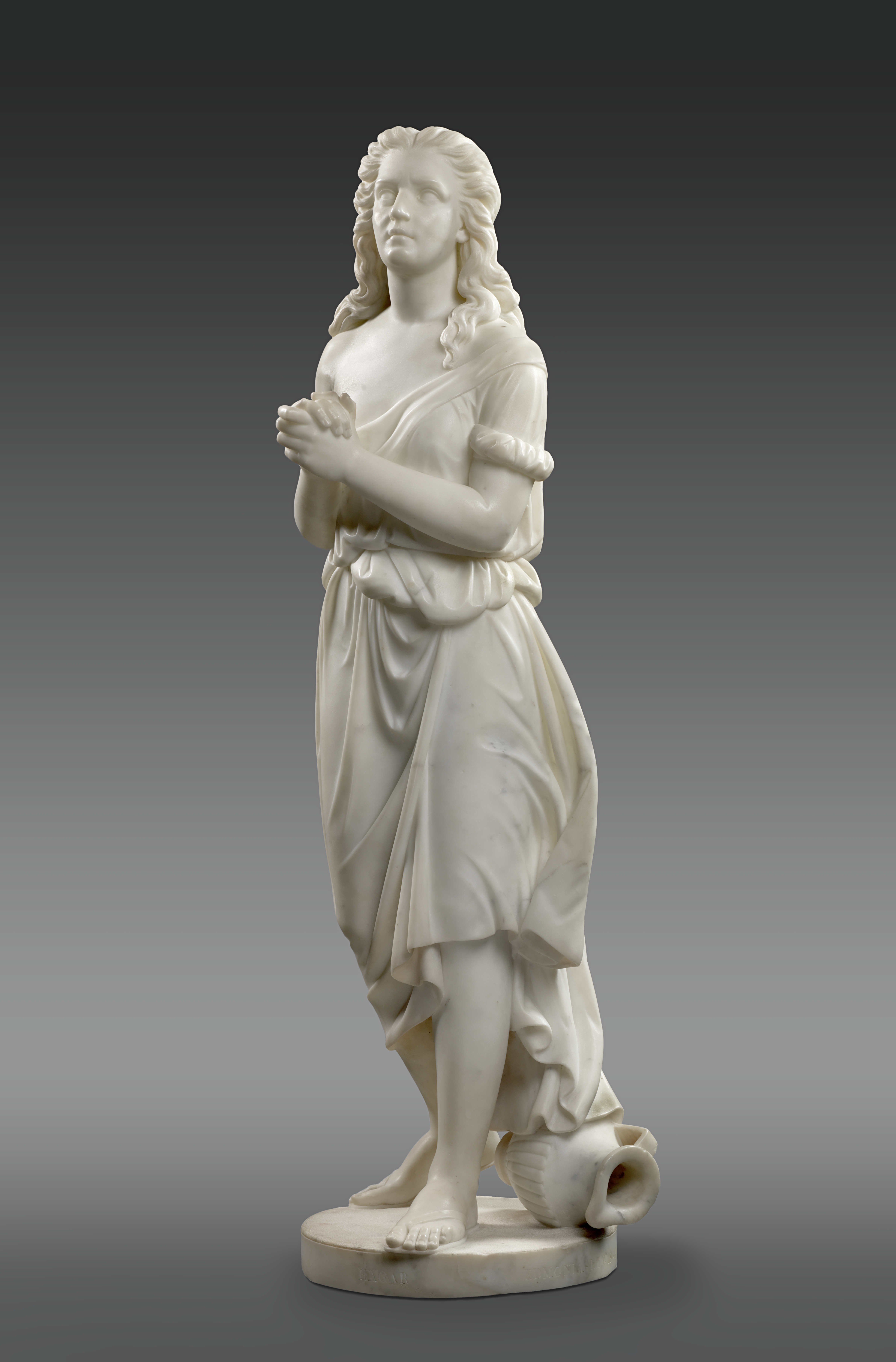 Hagar - Old Testament